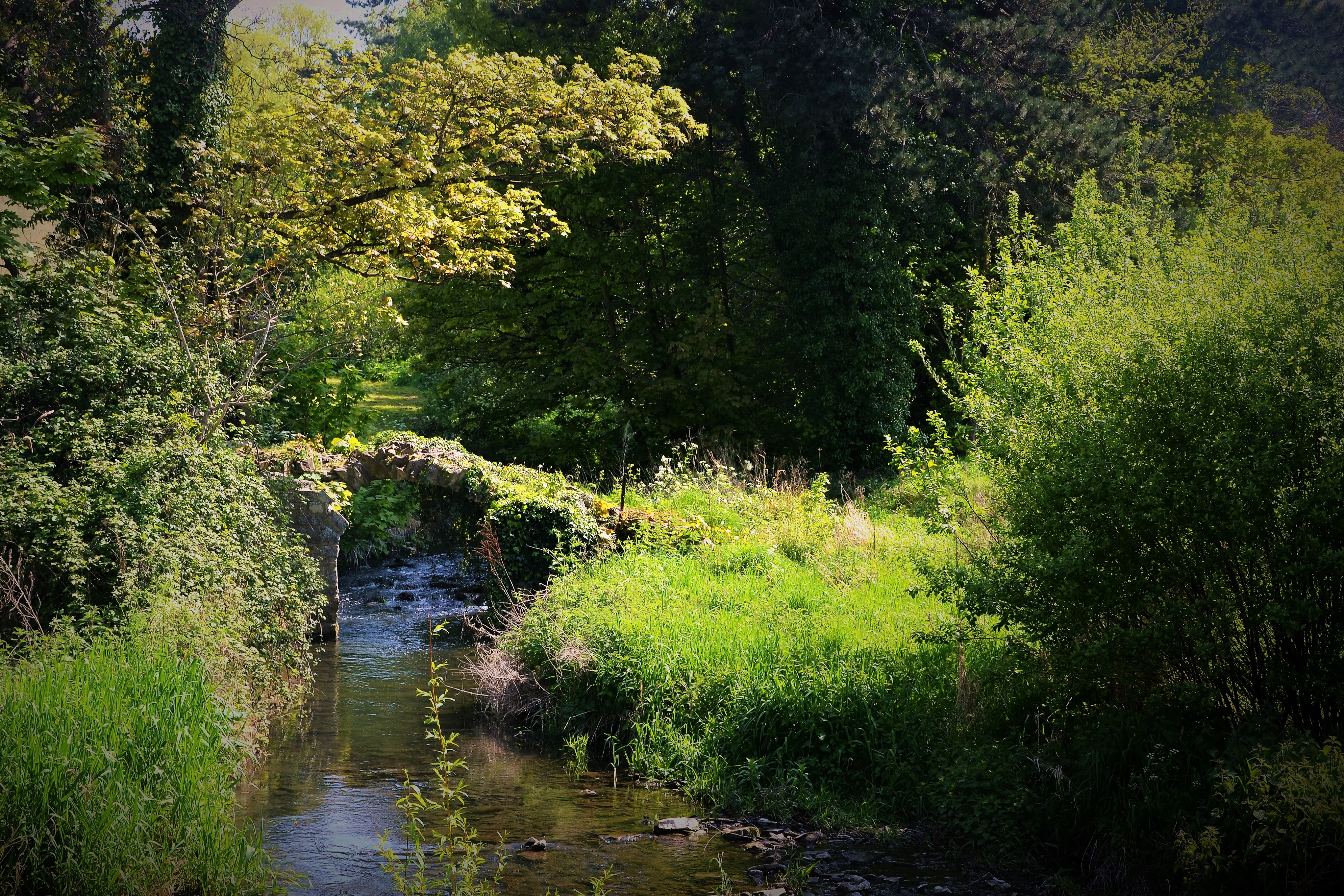 The old "King John's Bridge" or "Esker Bridge" in Esker South, Lucan, County Dublin. Not to be confused with the in-use King John's Bridge beside it, carrying Esker Lane. Wikidata has entry Q55046176 with data related to this item.